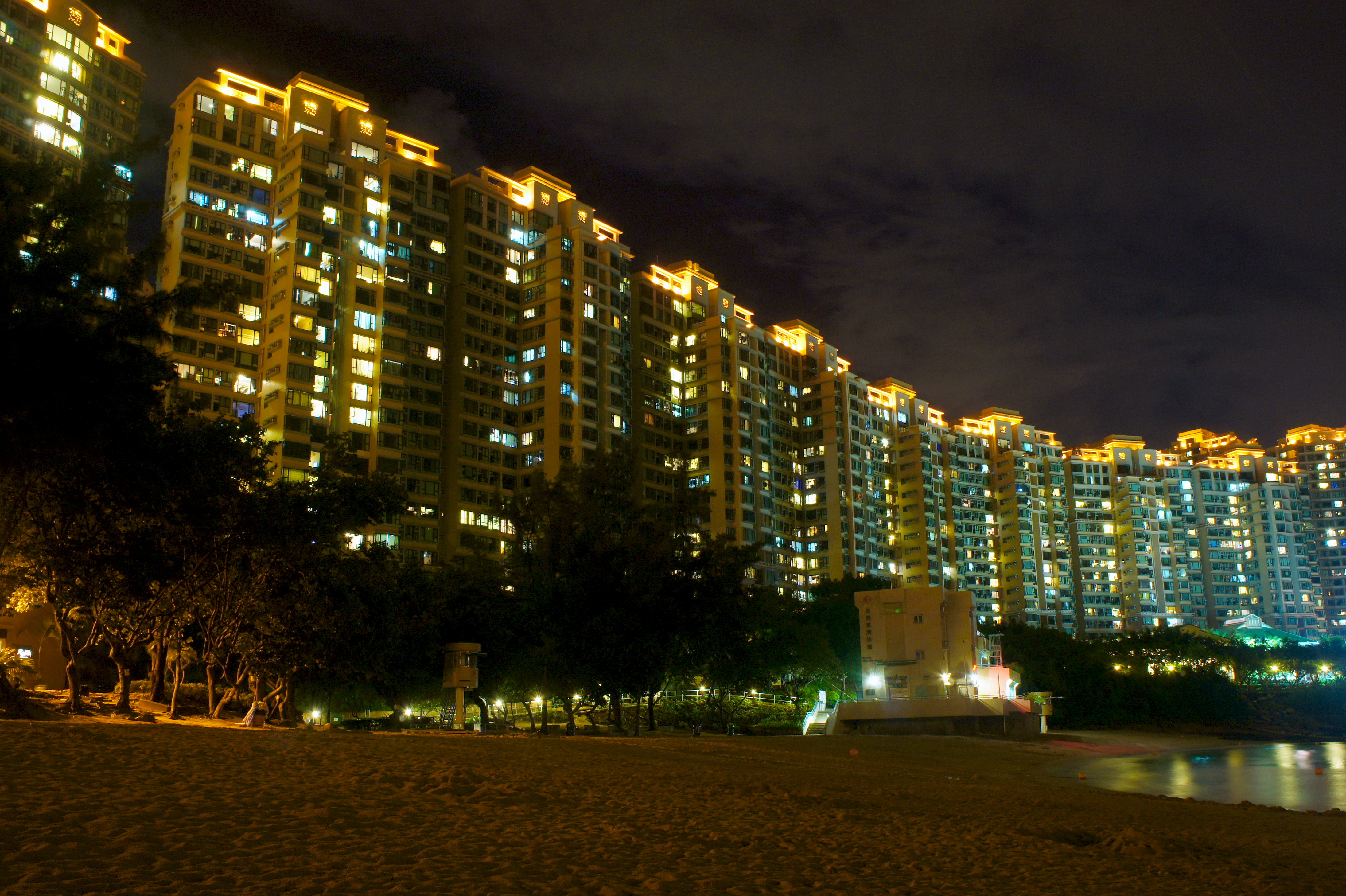 Park Island at night, Ma Wan, New Territories, Hong Kong.